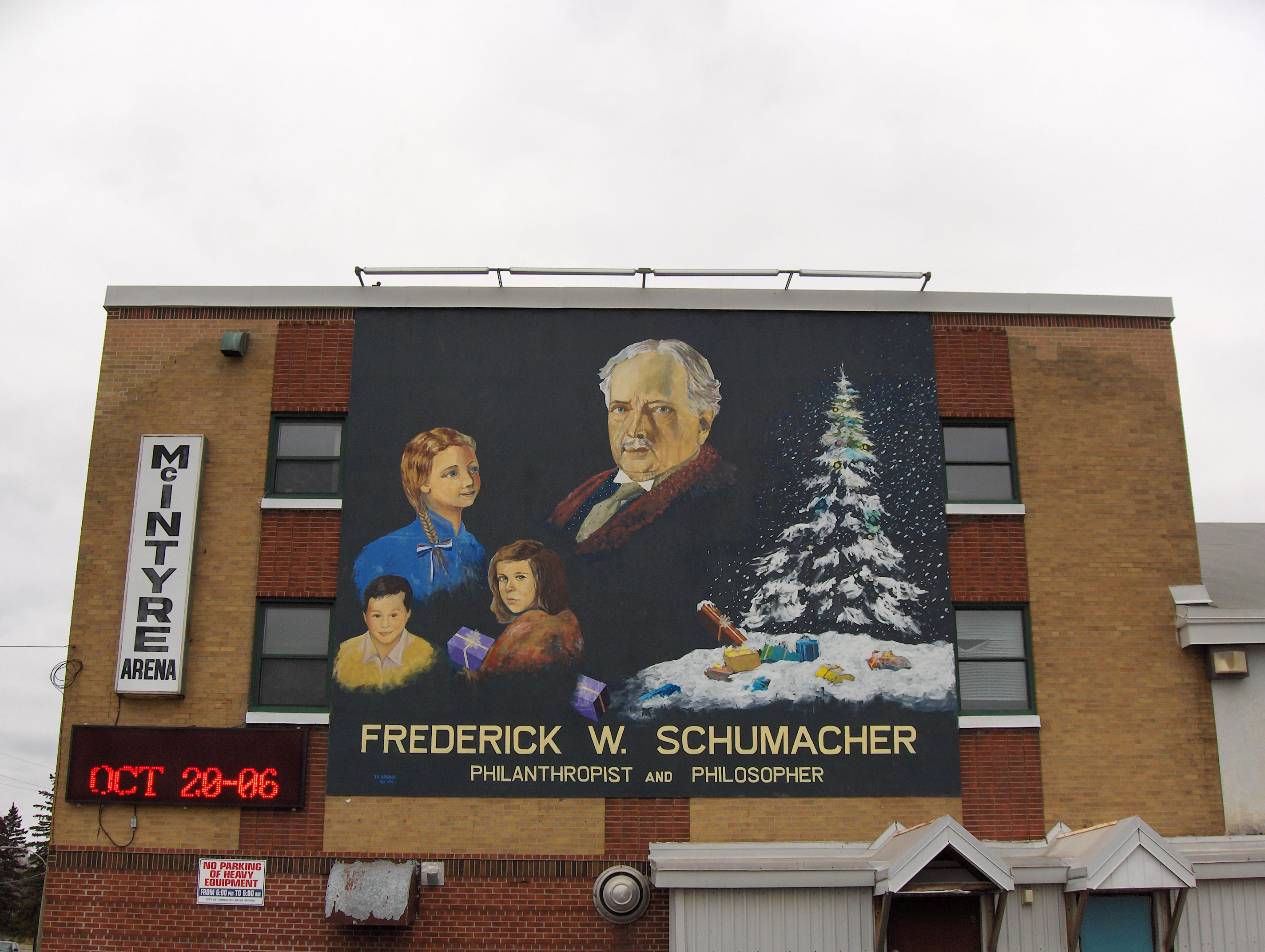 Author - John Monaghan Source - HP Photosmart R717